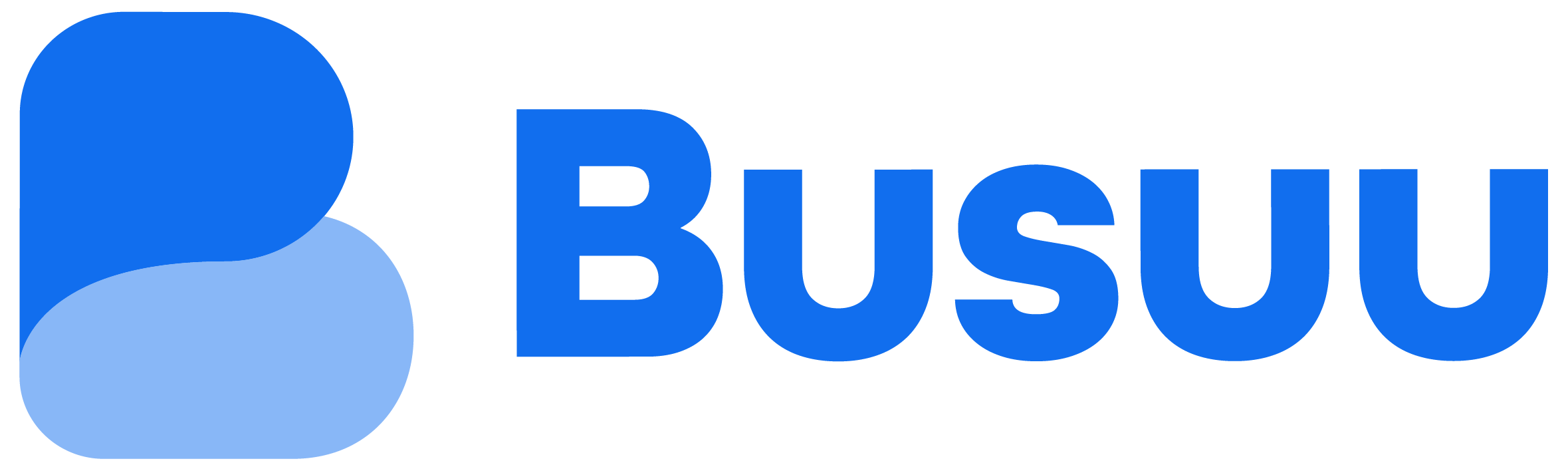 Busuu company logo.